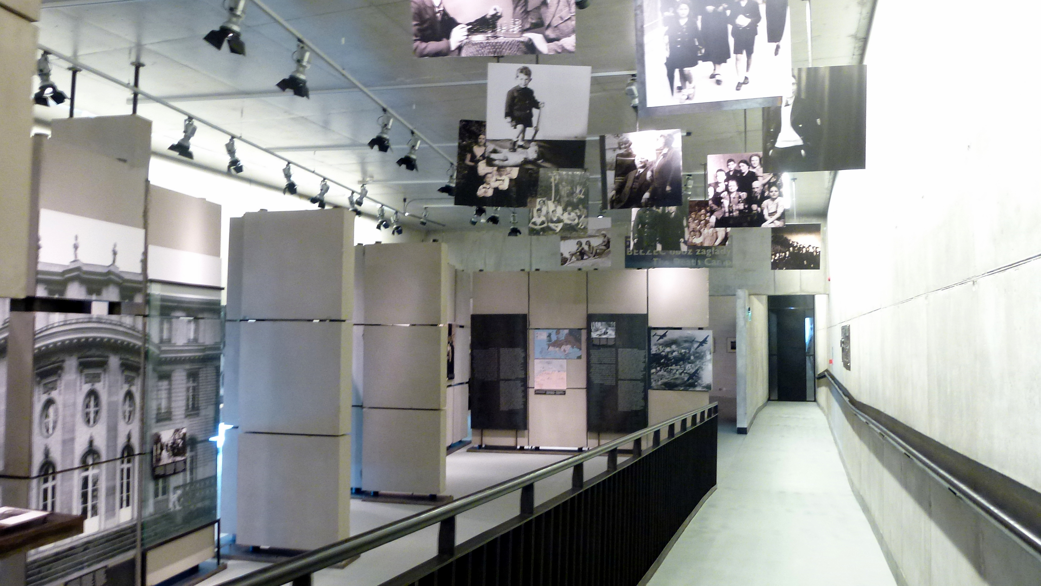 museum of former German-Nazi extermination camp in Belzec